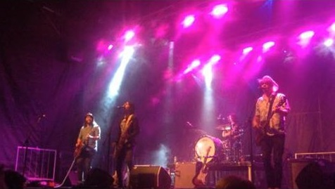 Les Respectables photographed in Vaudreuil-Dorion, Quebec, Canada.